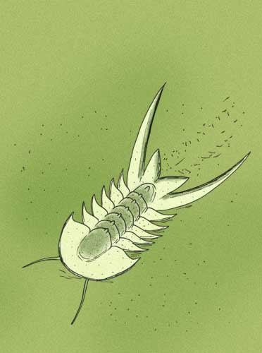 Reconstruction of the Lower Cambrian arthropod Aaveqaspis inesoni